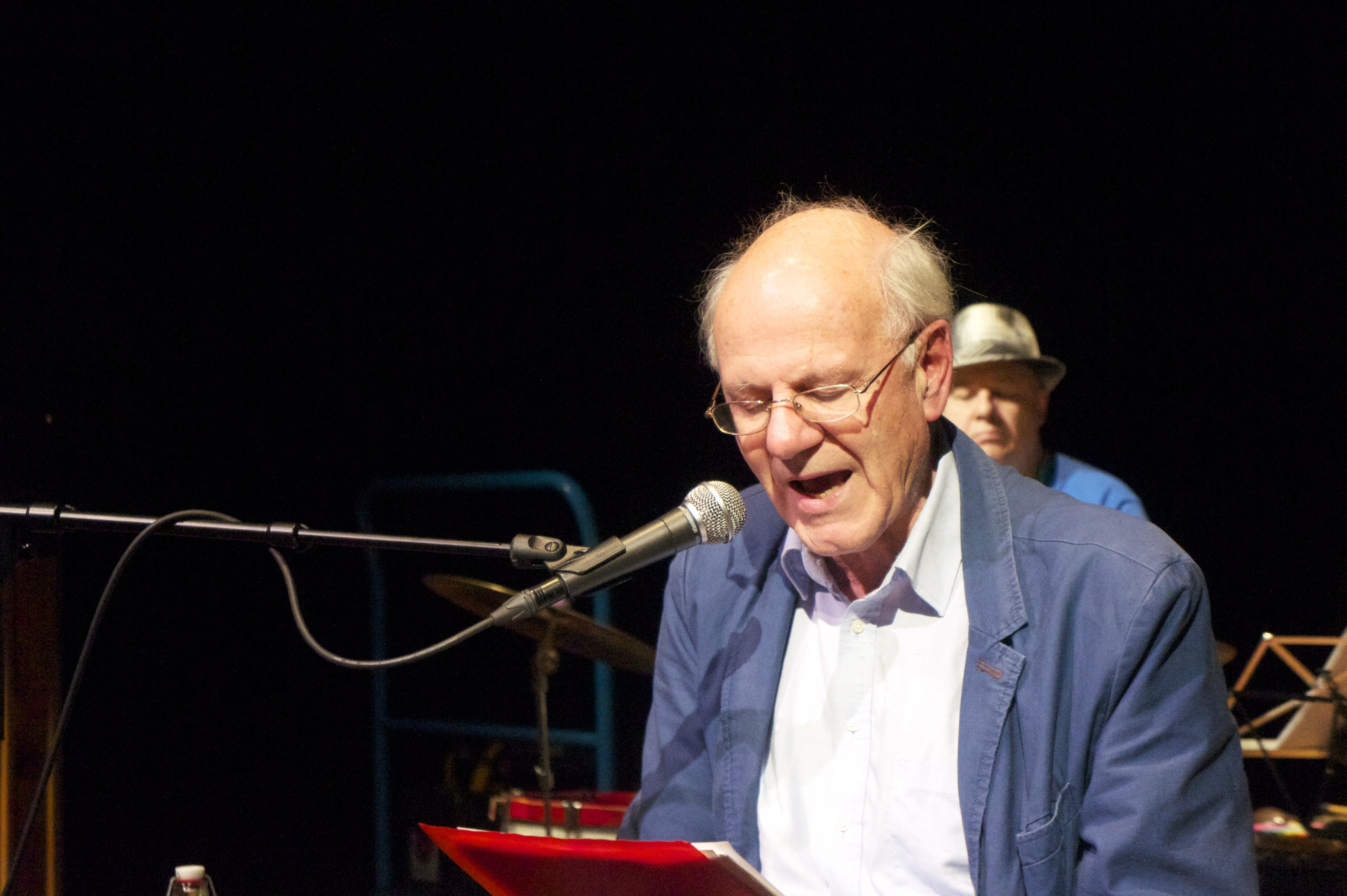 141012 Axes concert: Toon Tellegen & Wisselend Toonkwintet